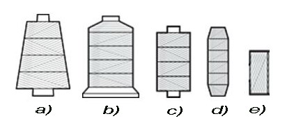 Various forms of sewing thread bobbins. a) Cone, b) Bottle bobbin, c) Cylindrical bobbin, d) Bobbin for embroidery machine, e) Bottom thread bobbin for lockstitch sewing machine.